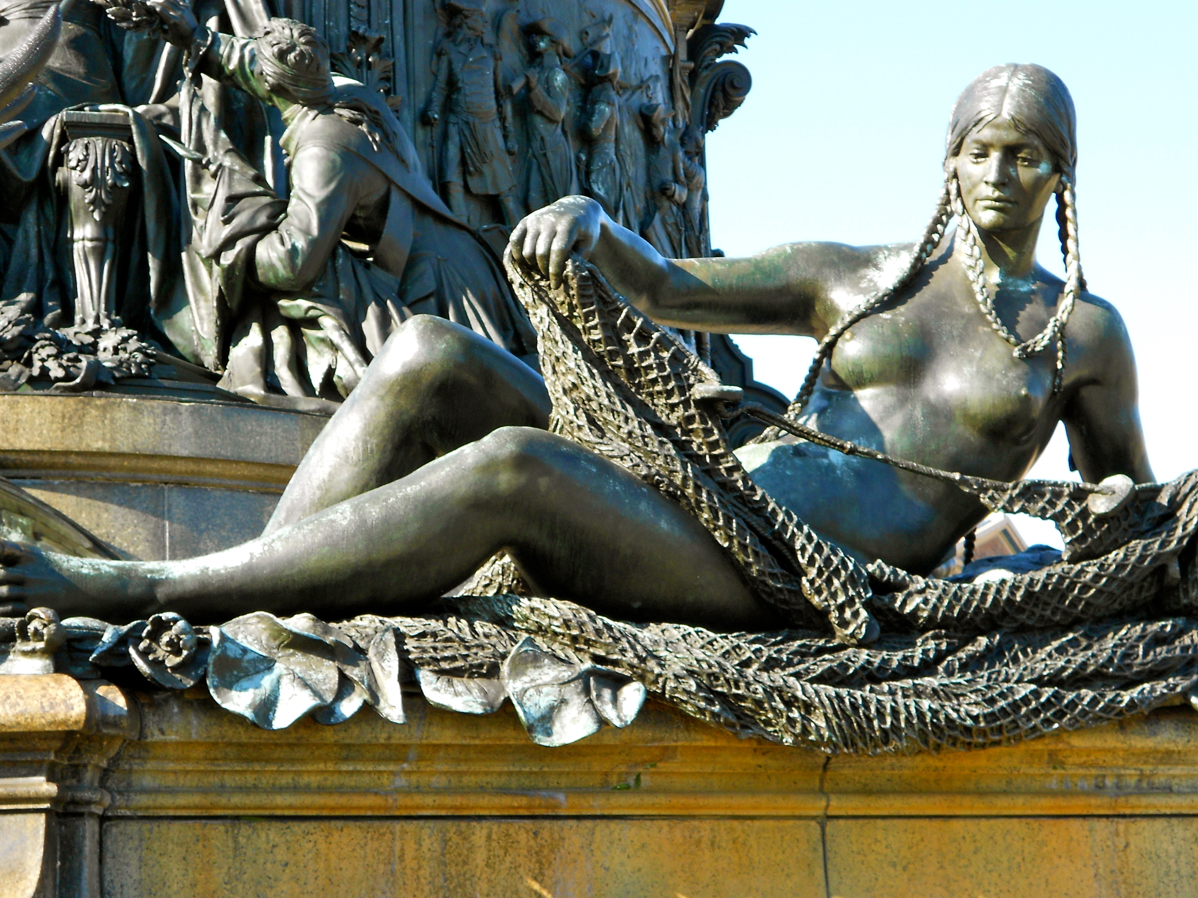 Sculpture of a fisherwoman 1800s in front of Philadelphia Museum of Art part of the George Washington statue.